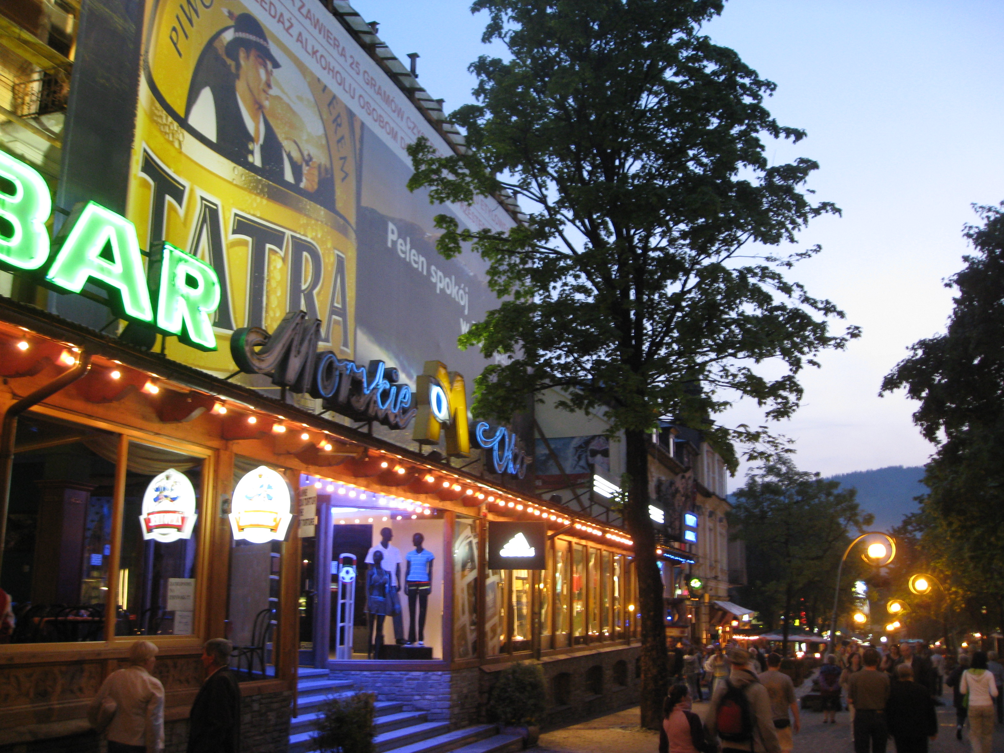 Ul. Krupowki, the main street in skiing village Zakopane, Poland.